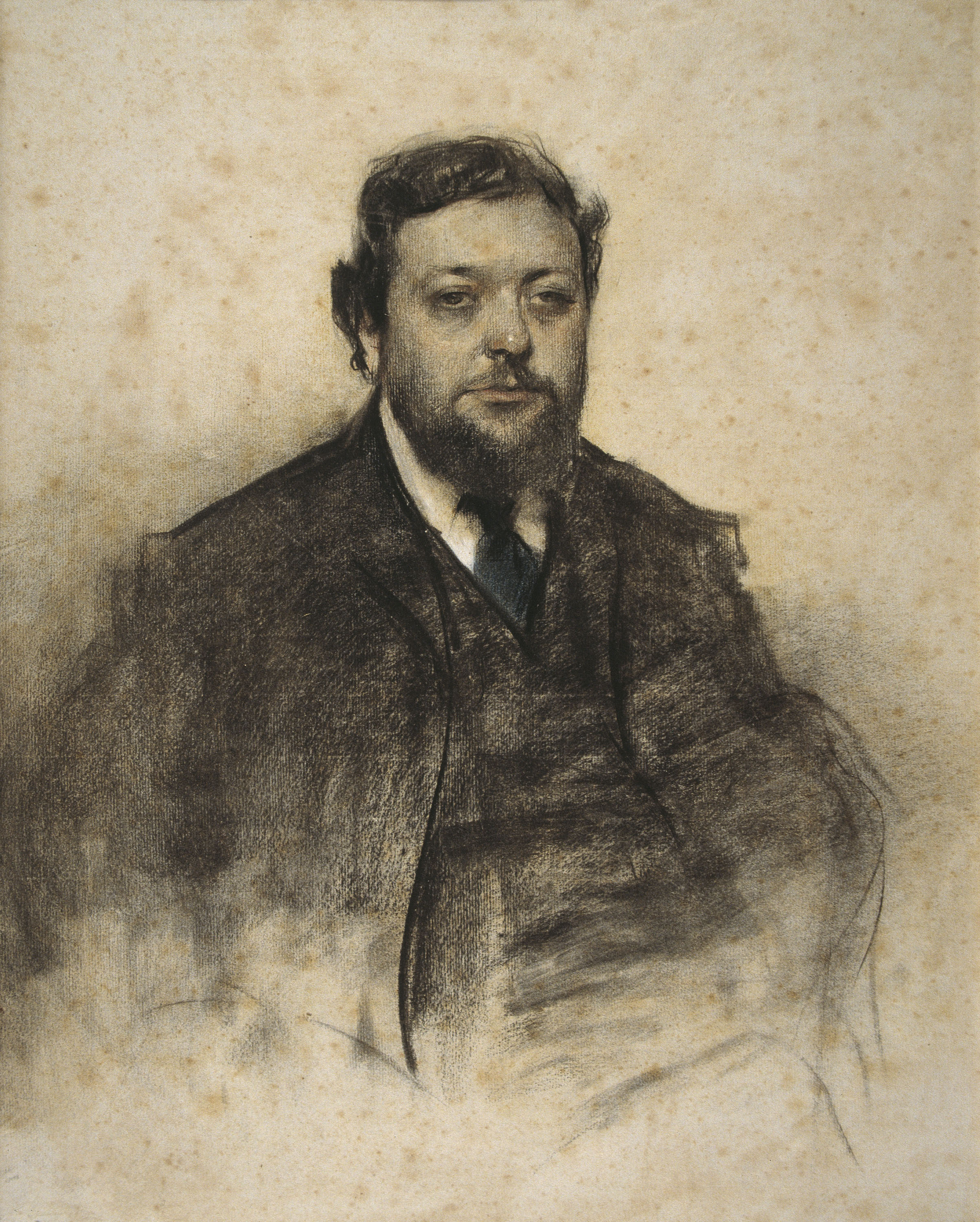 Portrait of Léon Jaussely by Ramon Casas conserved at MNAC in Barcelona. Imagen 002